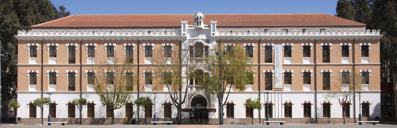 Fachada del Conservatorio de Música de Murcia